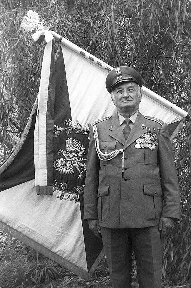 Czesław Górecki, Soldier of Poland. Border Protection Forces in Poniwiec